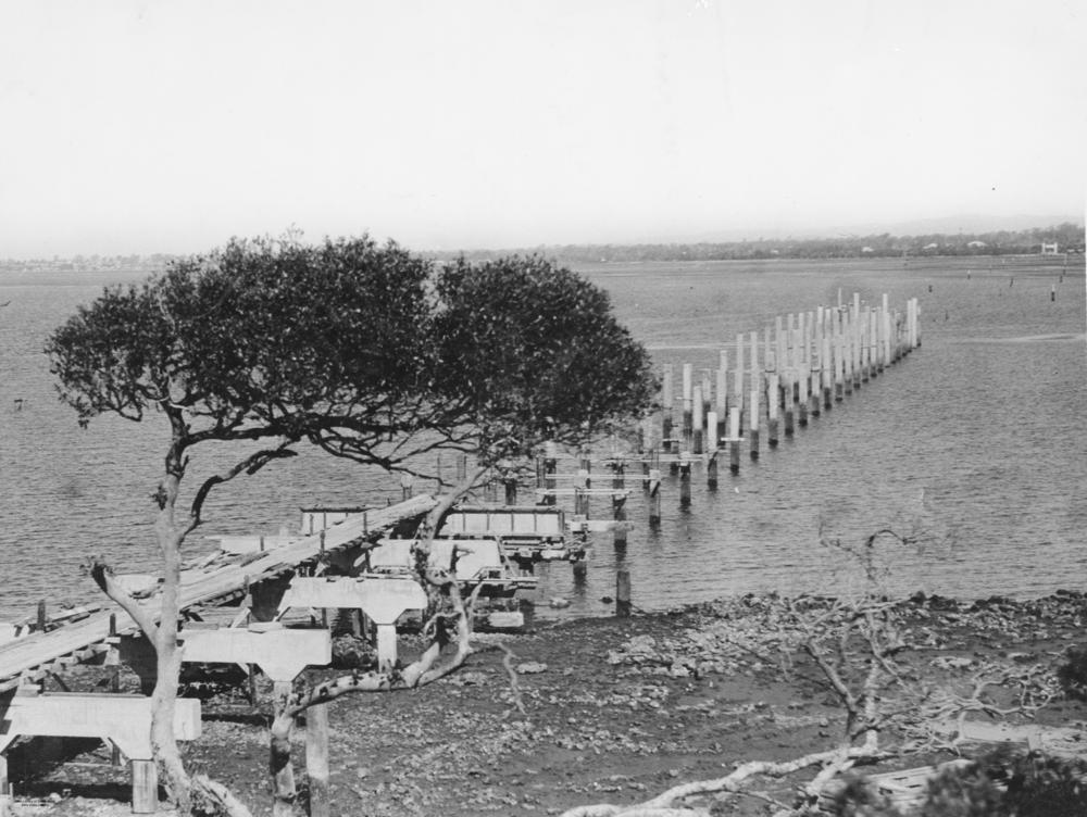 Progress on the Hornibrook Highway viaduct, Redcliffe, 1933 View of progress on the Hornibrook Highway bridge, seen from the Clontarf side looking across Bramble Bay to Brighton. The bridge and approach roads were designed by G.O. Boulton, Chief Engineer and Director of M.R. Hornibrook Pty. Ltd. The bridge portals were designed by Mr John Beebe, architect. The bridge consisted of 290 thirty feet spans, two twenty-eight feet six inches spans, and two twenty-four feet six inches spans, making a total length between the portals of 8 806 lineal feet. The bridge, or viaduct, spanned a wider stretch of water than any other bridge in Australia and the quantity of first class hardwood timbers used was greater than any other bridge of its kind in the world (Information taken from: M.R. Hornibrook Pty. Ltd., The new gateway to Redcliffe and the great North Coast : official souvenir of the opening of the Hornibrook Highway, 1935).